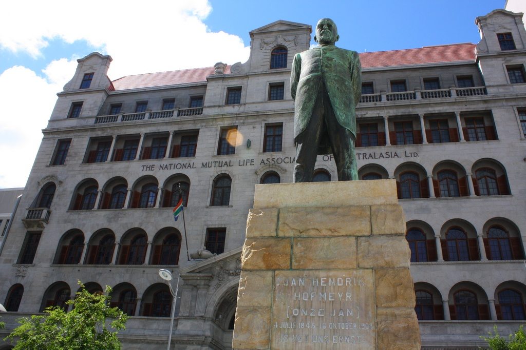 This media shows a South African Protected Site with SAHRA file reference 9/2/018/0140.